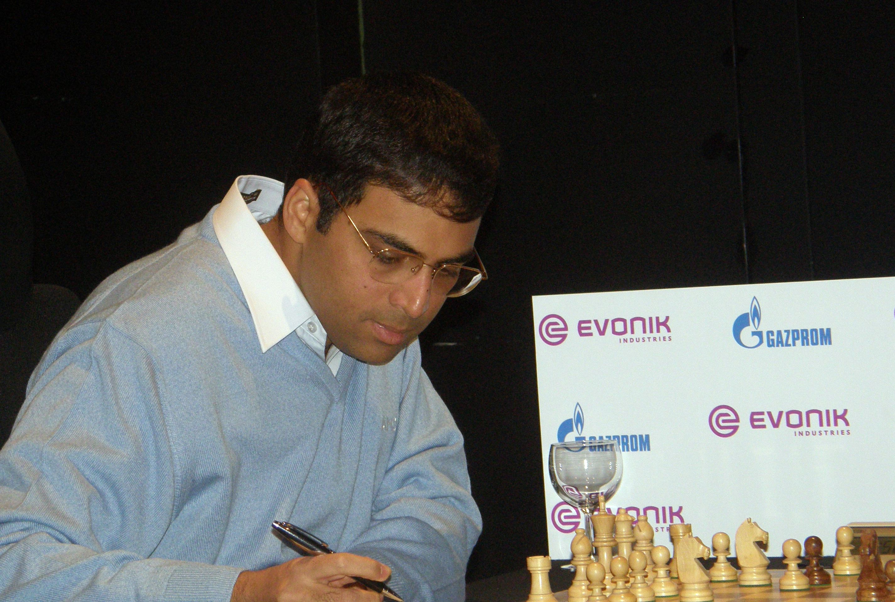 World Chess Championship 2008. Viswanathan Anand.